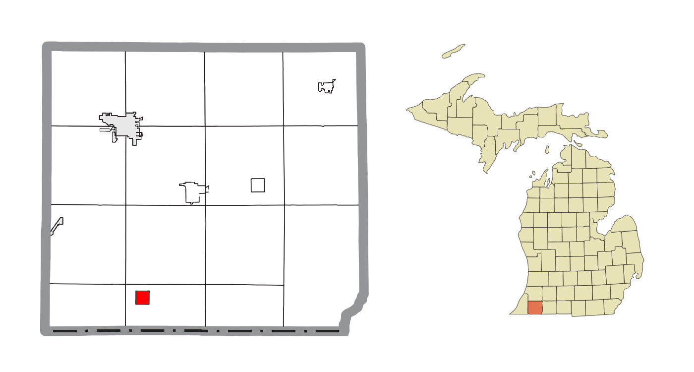 Edwardsburg, MI